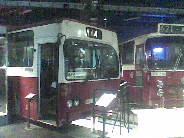 Bus at the Stockholm tramway museum in Stockholm, Sweden.